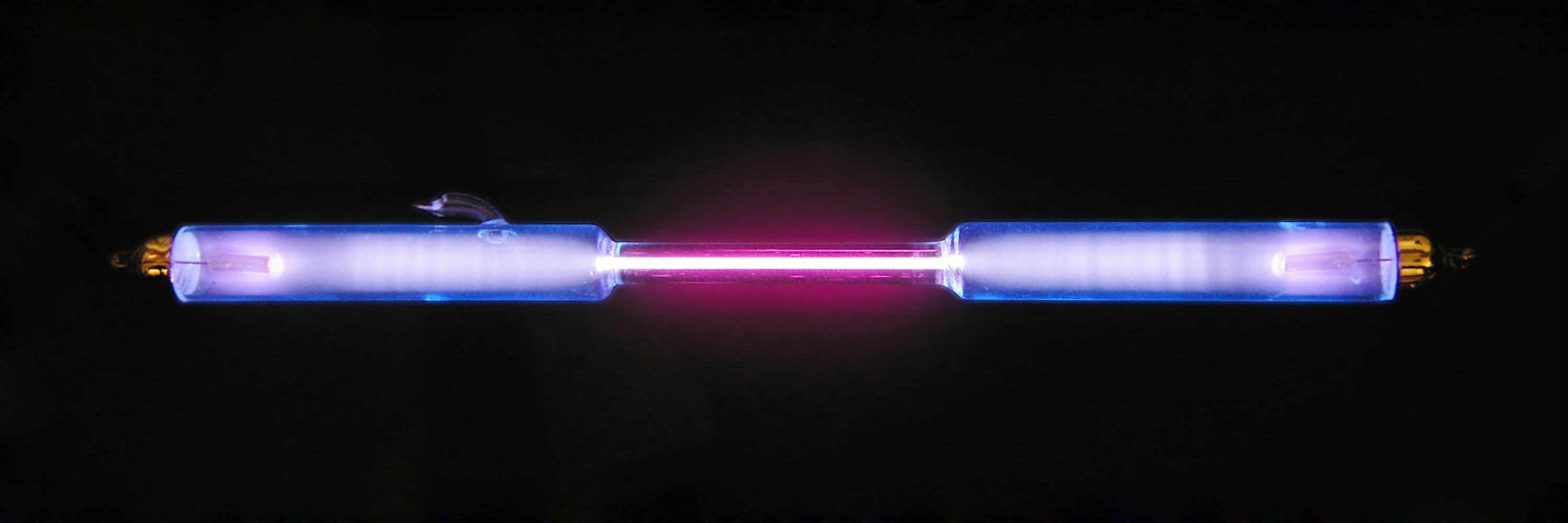 Spectrum = gas discharge tube filled with deuterium D2. Used with 1,8kV, 18mA, 35kHz. ≈8" length.